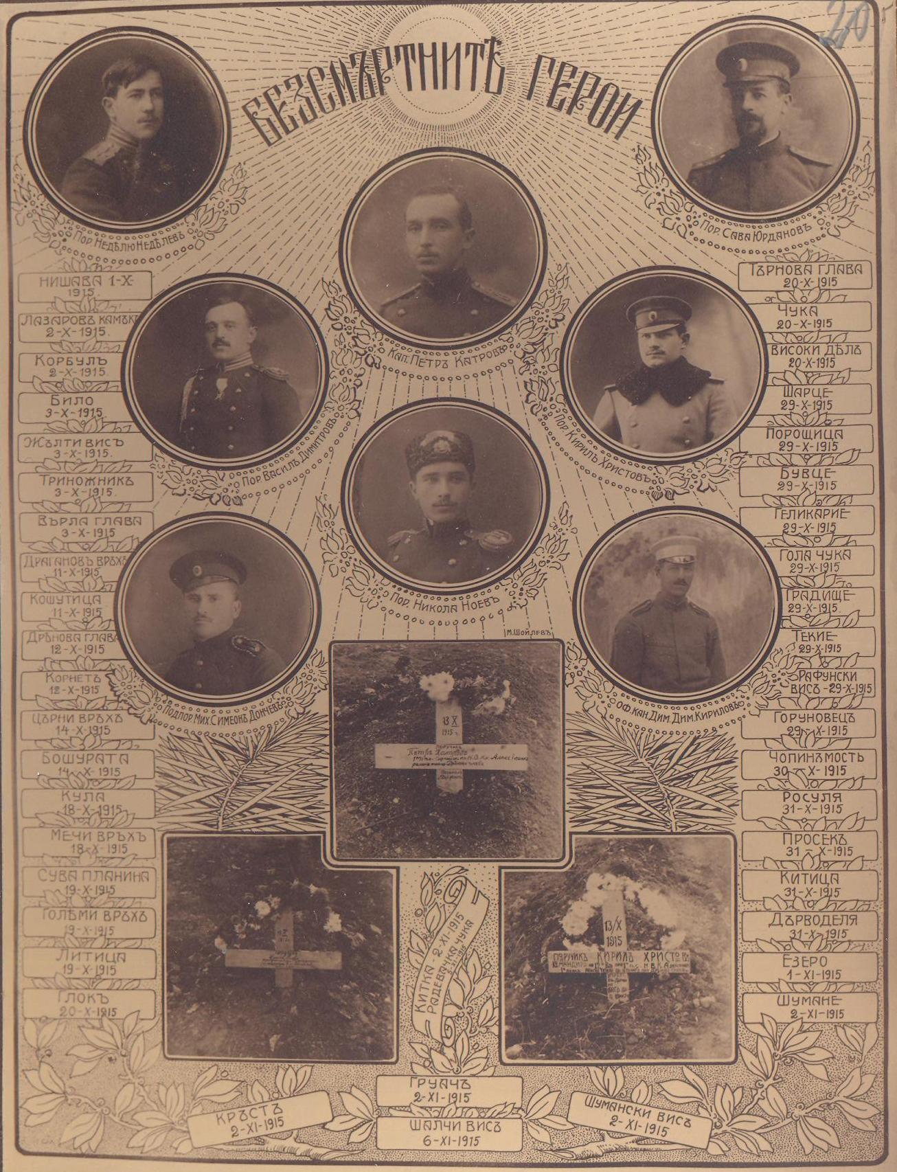 1st Sofia Infantry Regiment in the Serbian campaign, World War I. Album presented to "our beloved commander in chief major-general Nikola Zhekov" by the officers of the regiment, 1915.